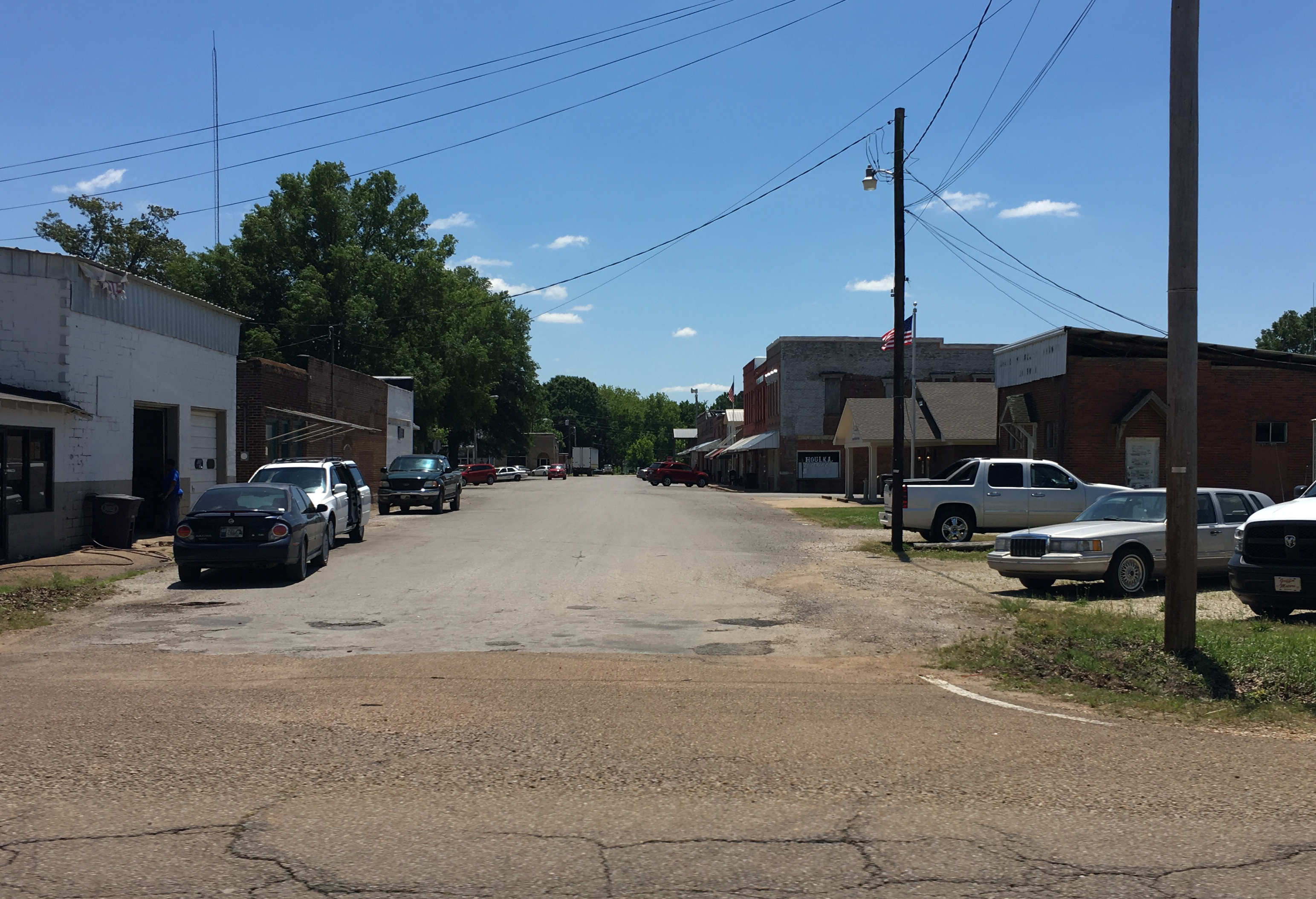 Looking south down Walker Street in New Houlka, Mississippi